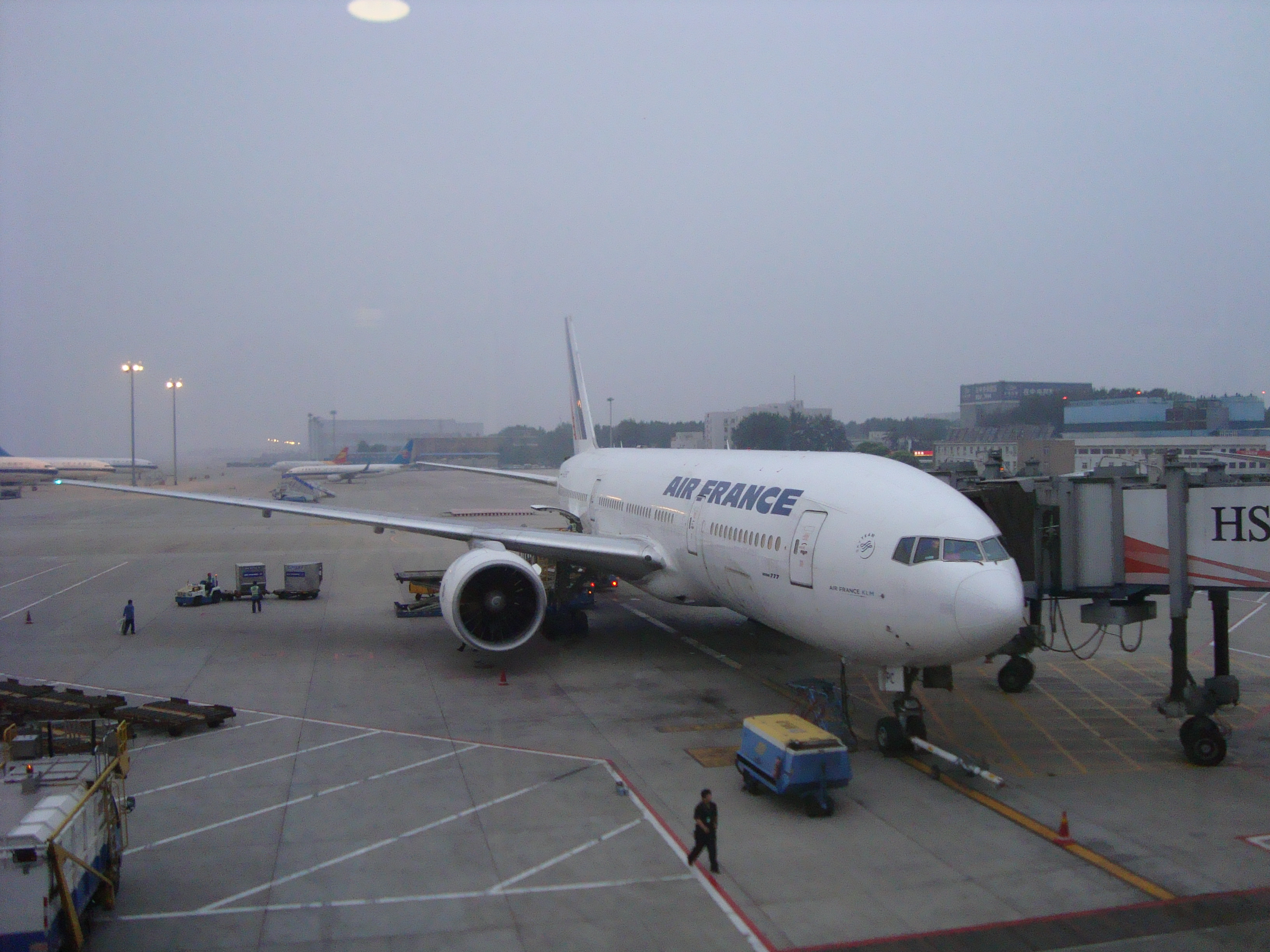 Boeing B777-228ER aircraft (F-GSPC) of Air France at Beijing Capital Airport